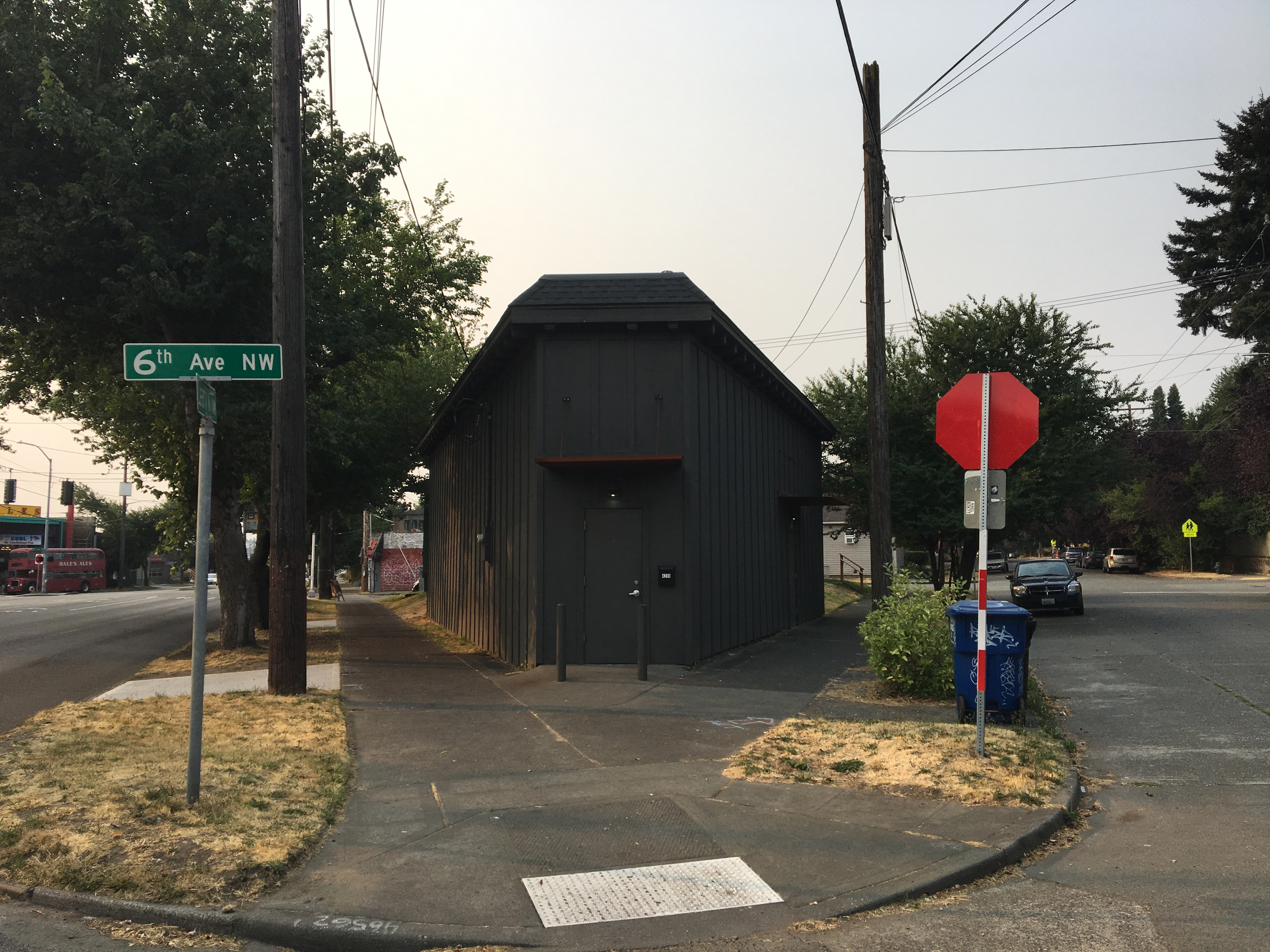 The old Reciprocal Recording studio in Ballard, Seattle, WA in August of 2017.